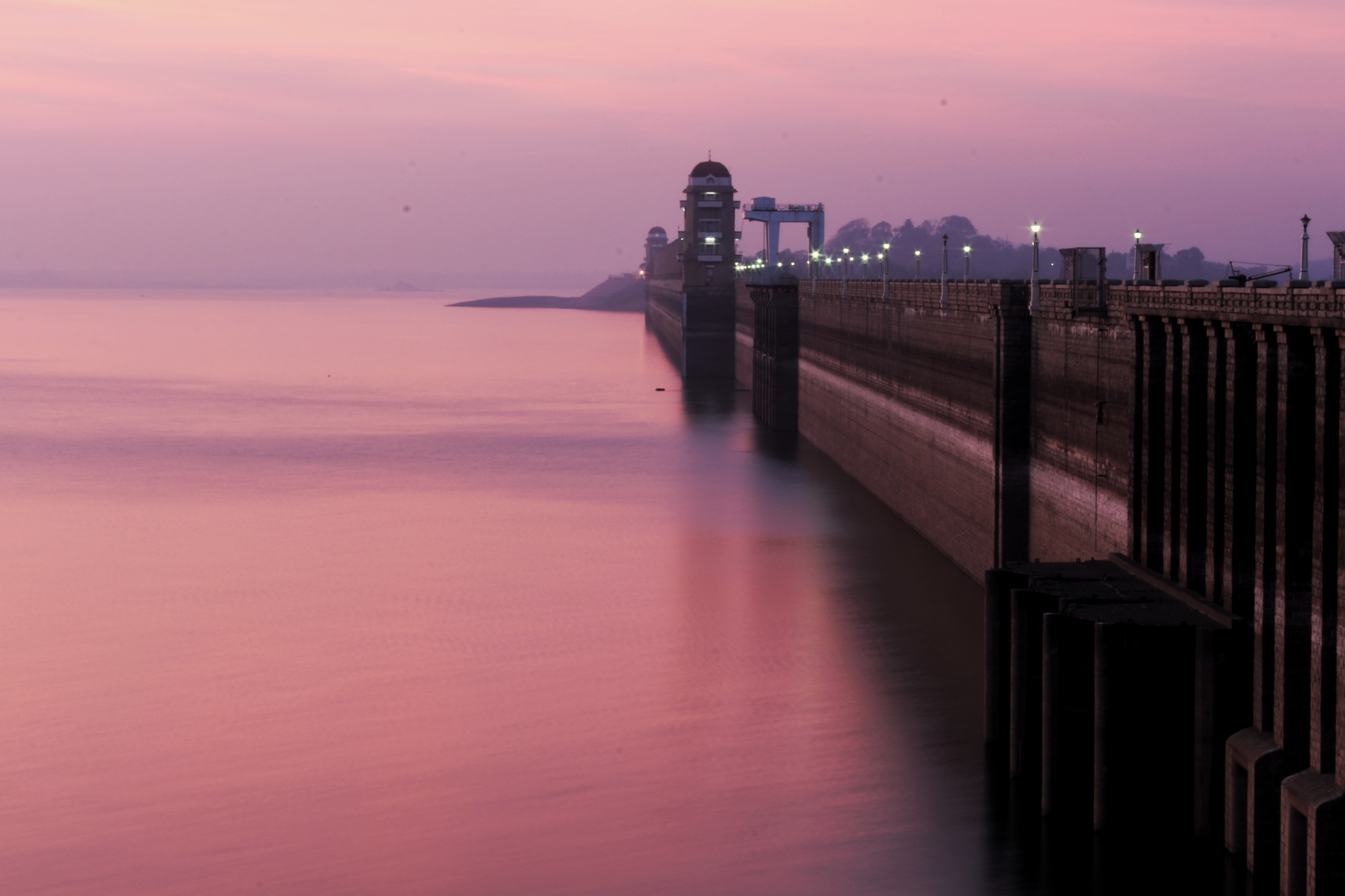 A pleasant sunset at the Tungabadhra Dam